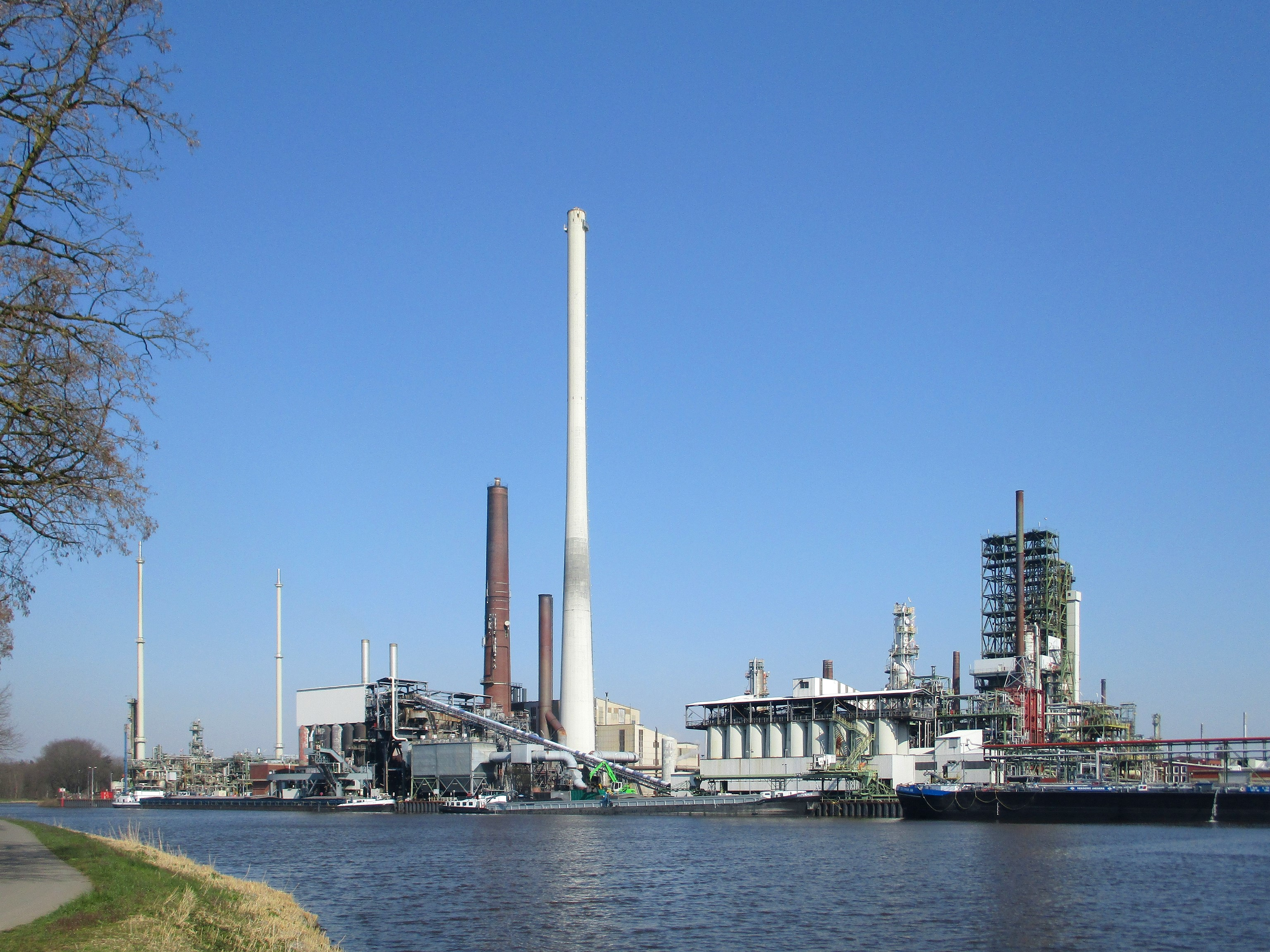 Harbour and power station of the oil refinery Emsland in Lingen(Ems)-Holthausen